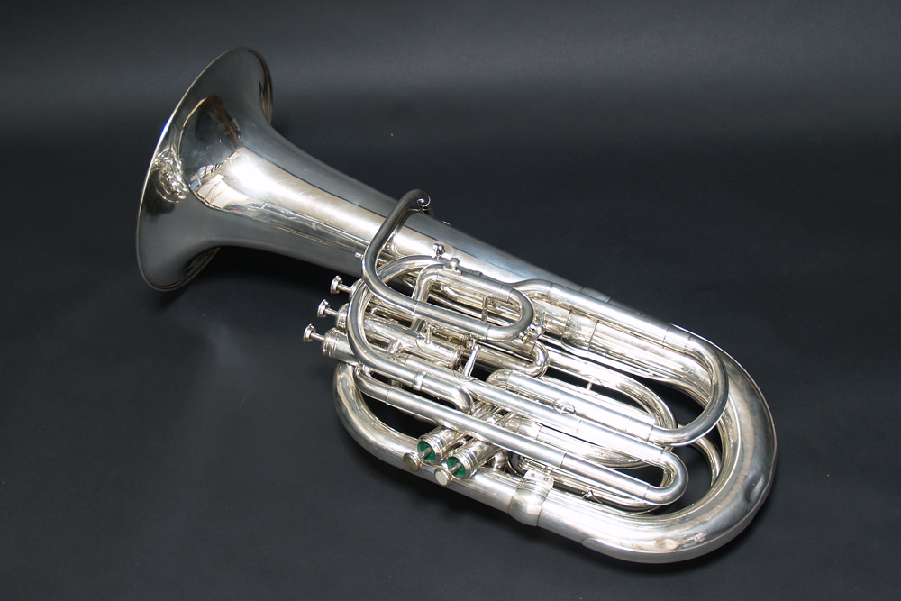 Saxhorn Basse en Sib (in Bb) A.Courtois 166